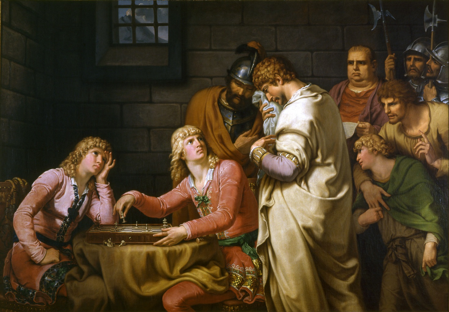 A painting of Conradin and Frederich by Johann Heinrich Tischbein.